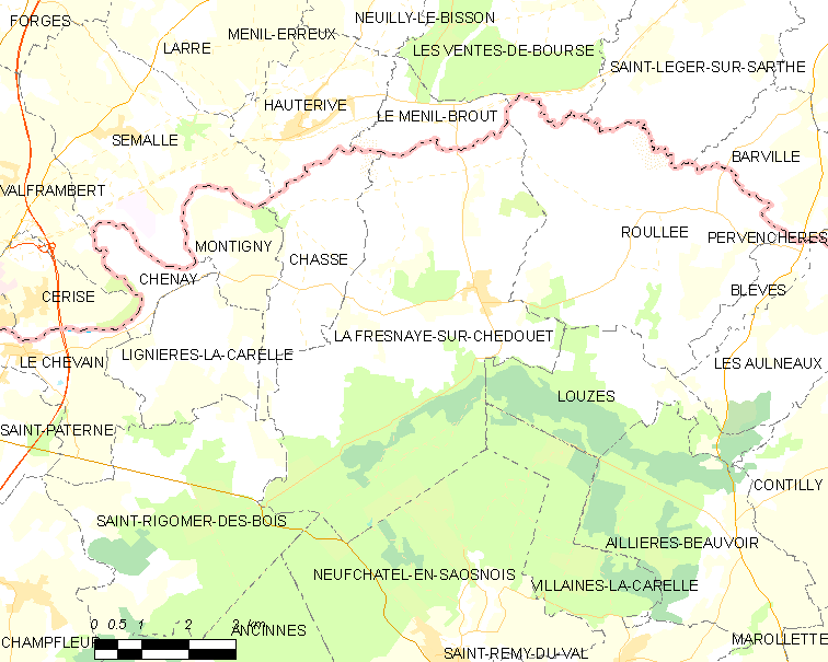 Map of French municipality